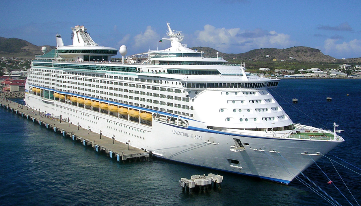 Adventure of the Seas is a Royal Caribbean cruise ship, which was built in Finland. It entered service in 2001 and carries 3,100 passengers. I photographed it in port at Basseterre, St. Kitts.